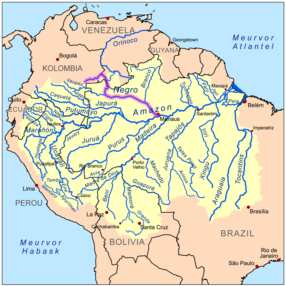 This is a map of the Amazon River drainage basin with the Rio Negro highlighted.